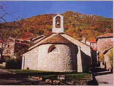 Temple of Vialas